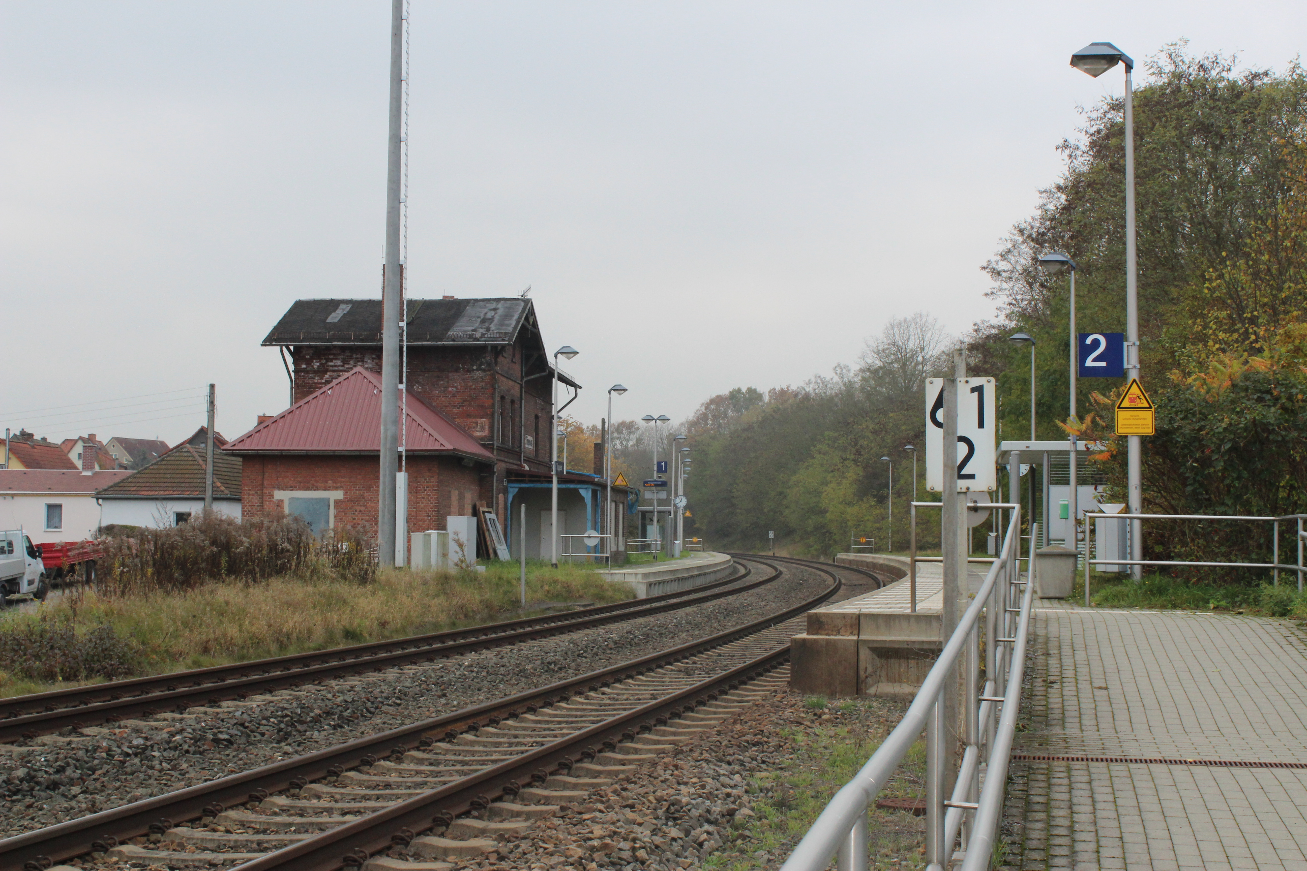 train station Töppeln